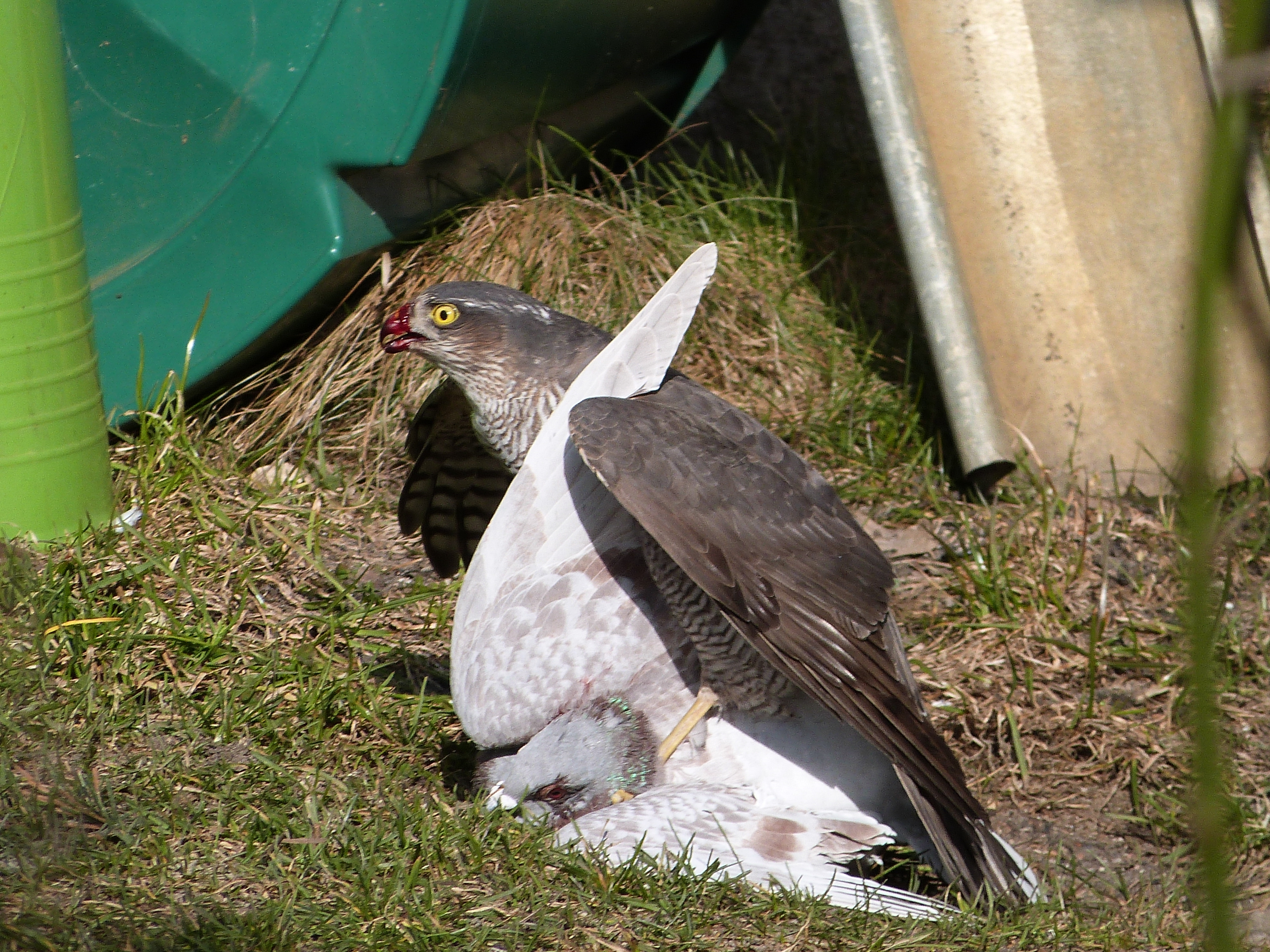 Eurasian Sparrowhawk (female, adult) with its prey, a Domestic Pigeon